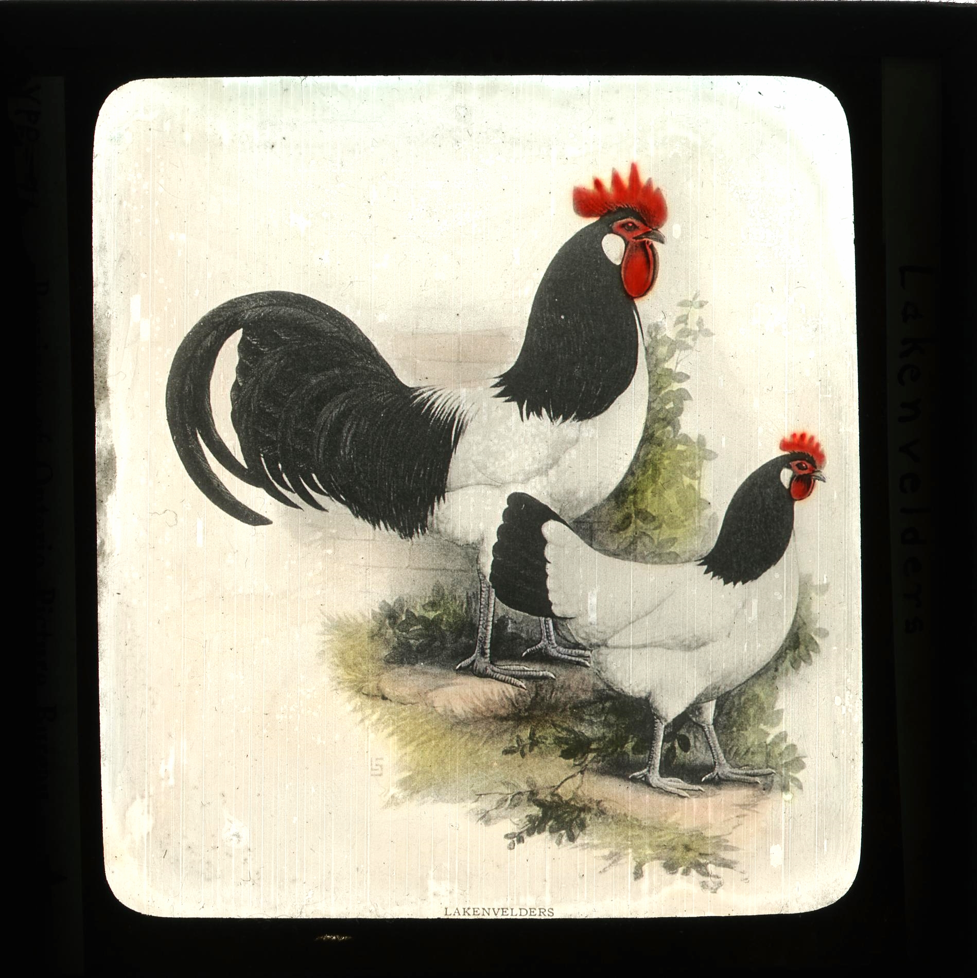 Slide produced by the Province of Ontario Picture Bureau, probably in the 1920s, for use in Ontario schools. Original slide reference: YPP-96 Donated to the Community Archives of Belleville and Hastings County by Mike and Sue Mills in October 2015.